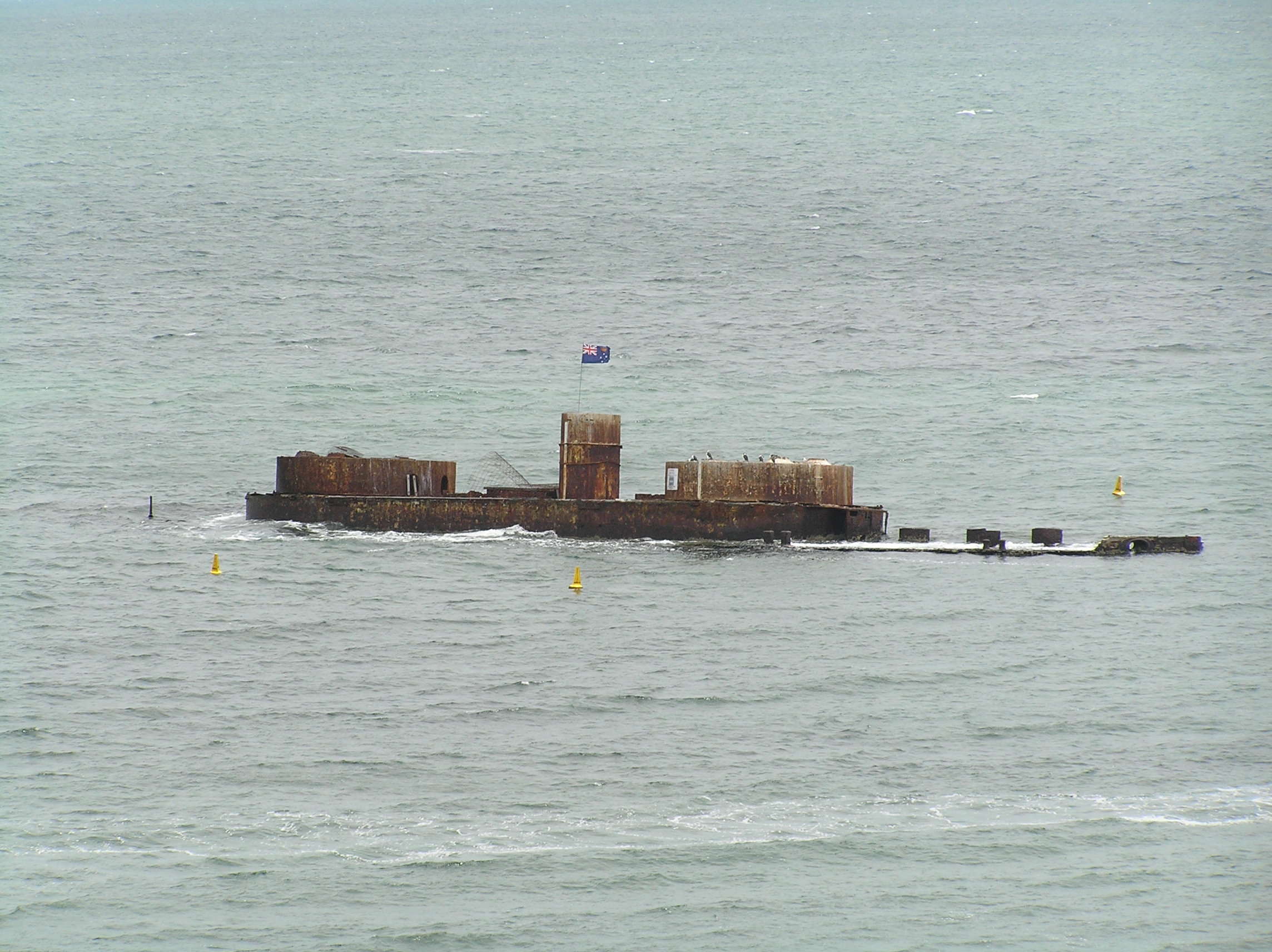 HMVS Cerberus hulk in Half Moon Bay on the 16 Dec 2007.